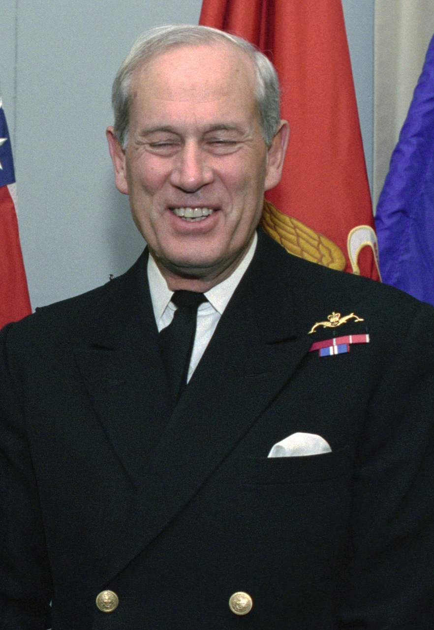 The Royal Navy Admiral Sir Michael Cecil Boyce, United Kingdom Chief of Defense, at the Pentagon.